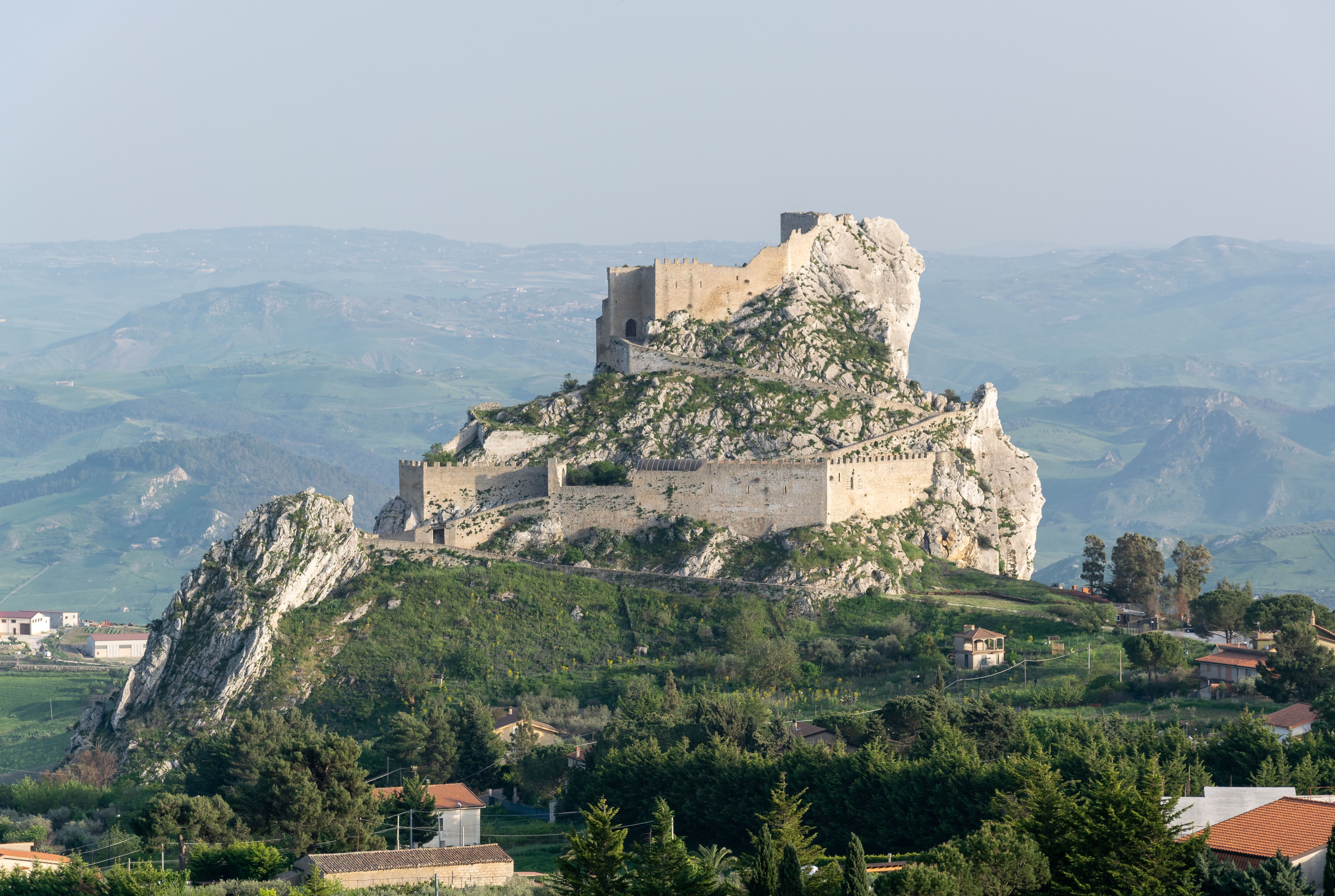 Mussomeli Castle, North-west view